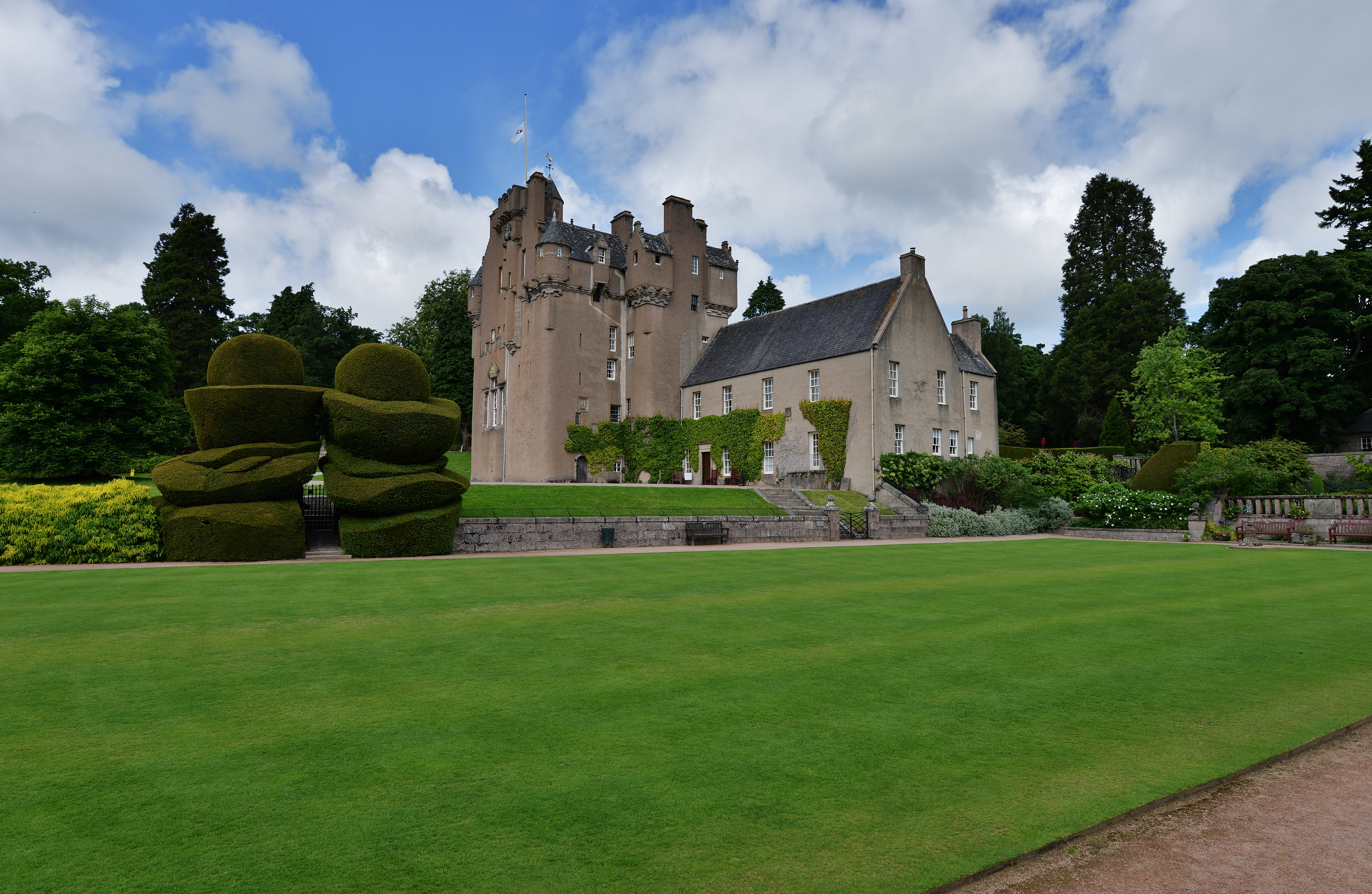 Photo by Michael Garlick